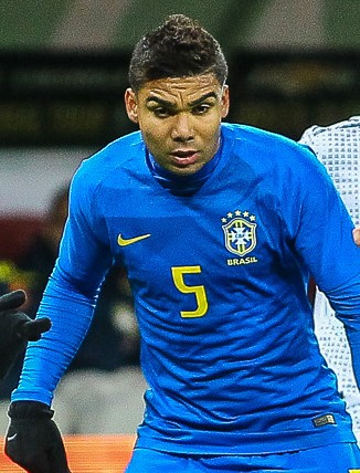 Casemiro